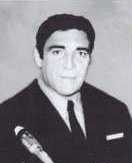 Adnan Al-Kaissie (early 1970s)